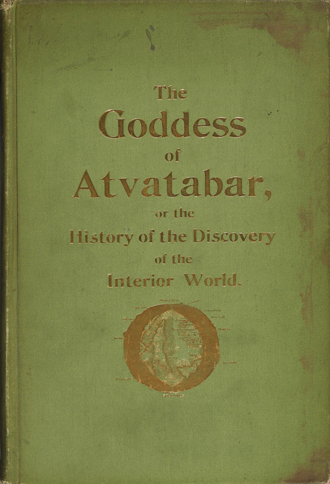 Cover: The Goddess of Atvatabar: being the history of the discovery of the interior world and conquest of Atvatabar by William Richard Bradshaw (1851-1927). New York: J.F. Douthitt, 1892. SF-251, Houghton Library, Harvard University